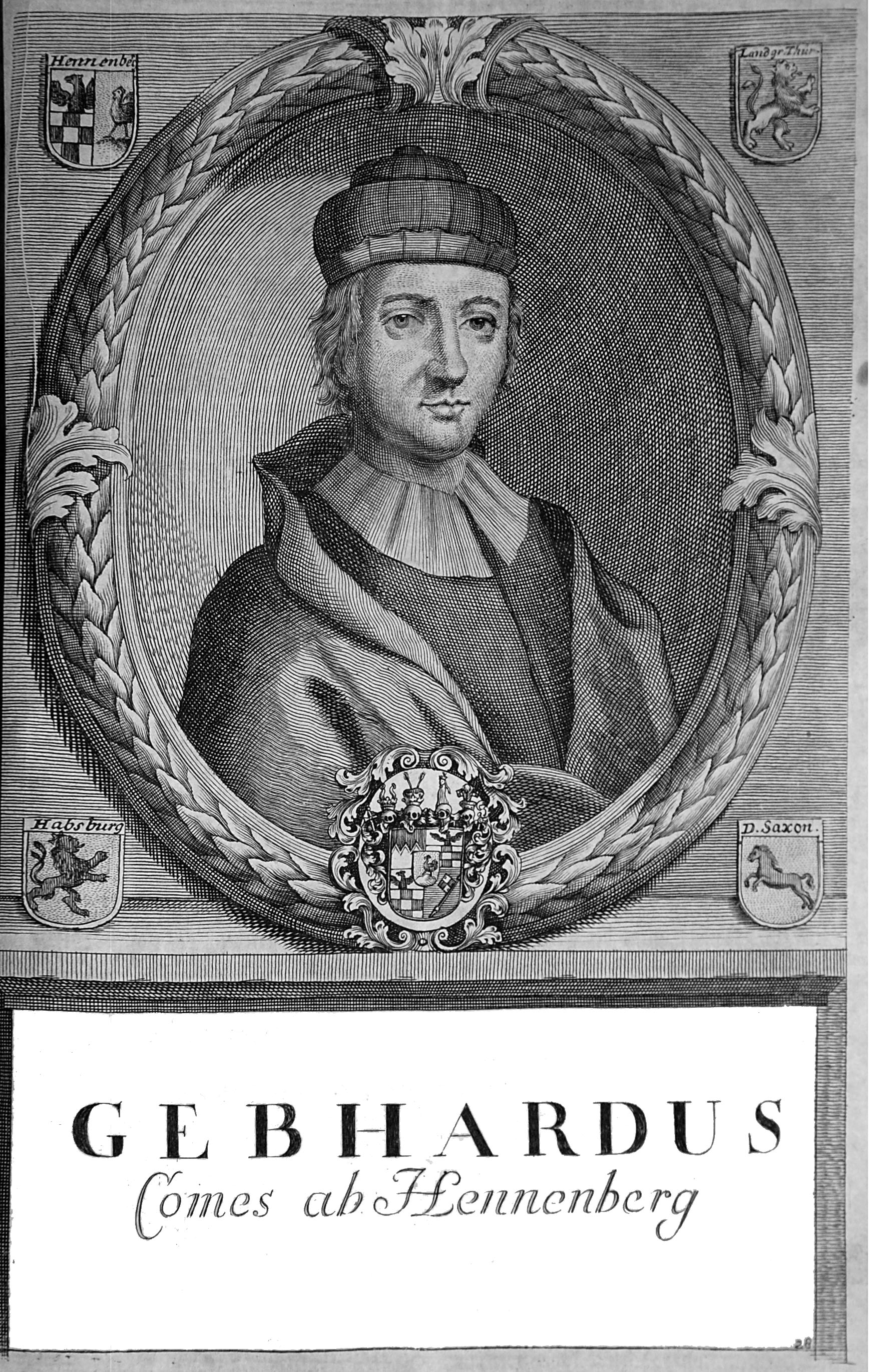 Gebhard von Henneberg 1150 - 1159 Bishop of Würzburg